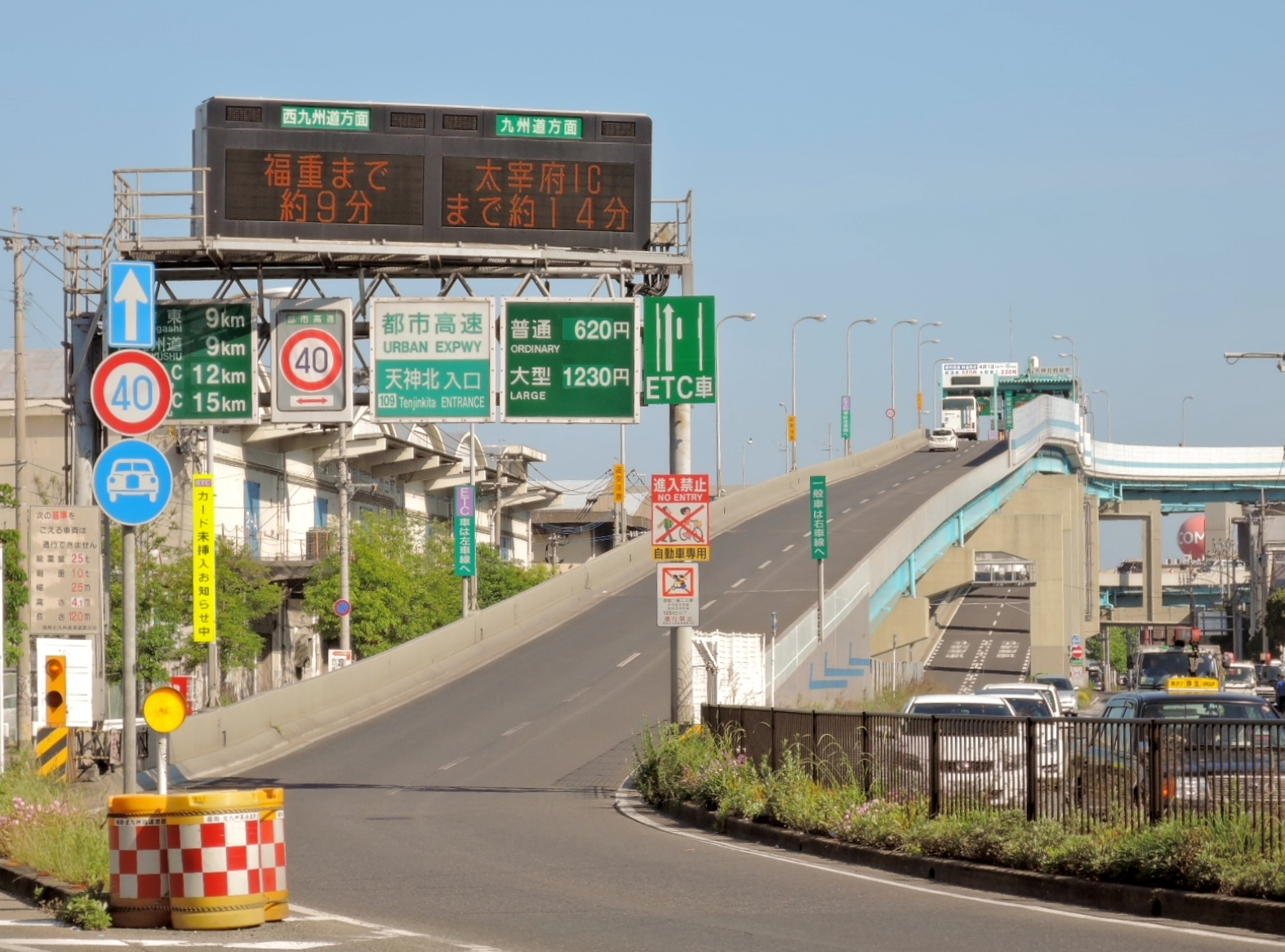 Tenjinkita Interchange on the Fukuoka Expressway Circular Route